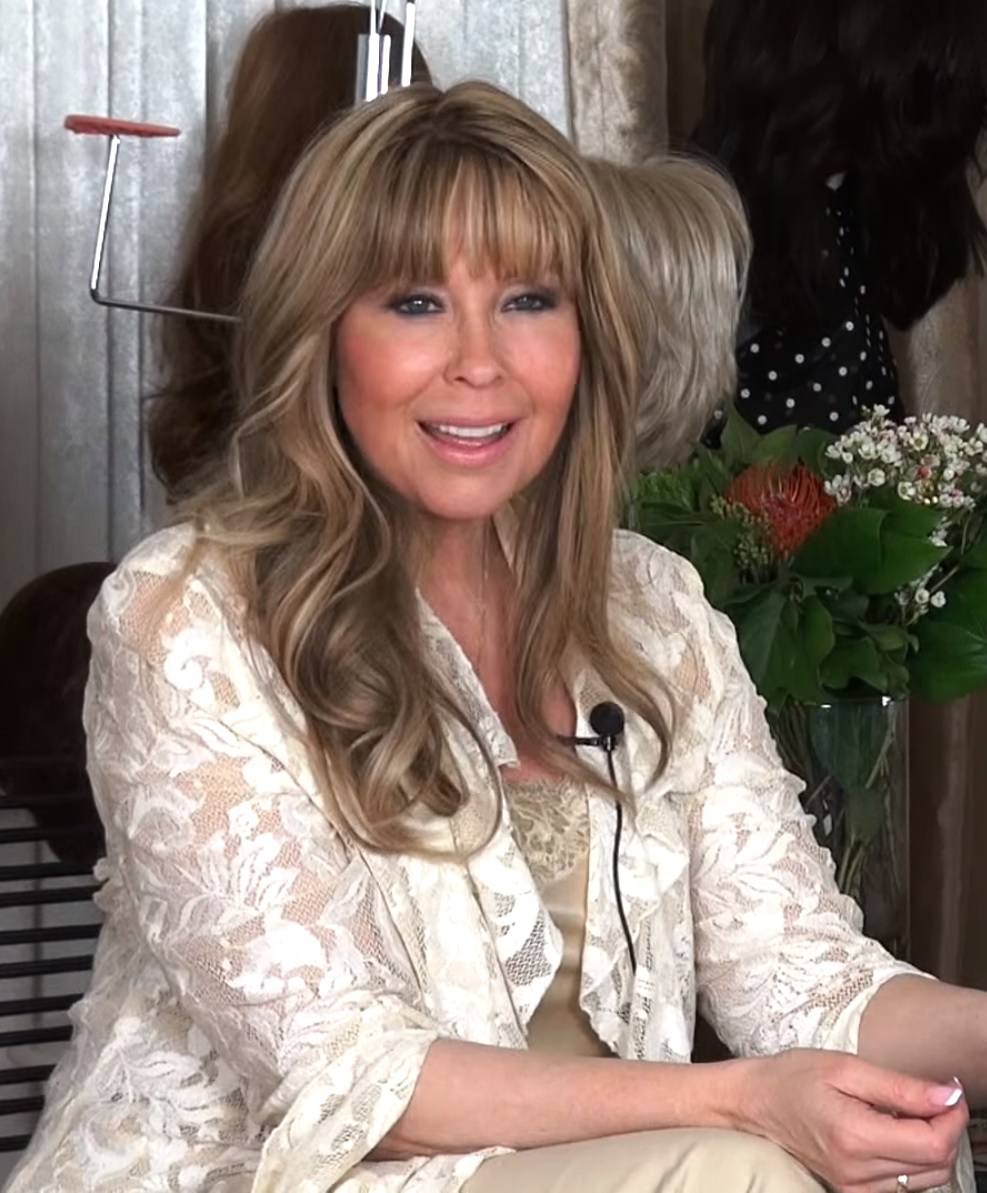 Emmy nominated actress and wig maker Amy Gibson discusses authenticity with Princess Halliday on Empower Africa Initiative